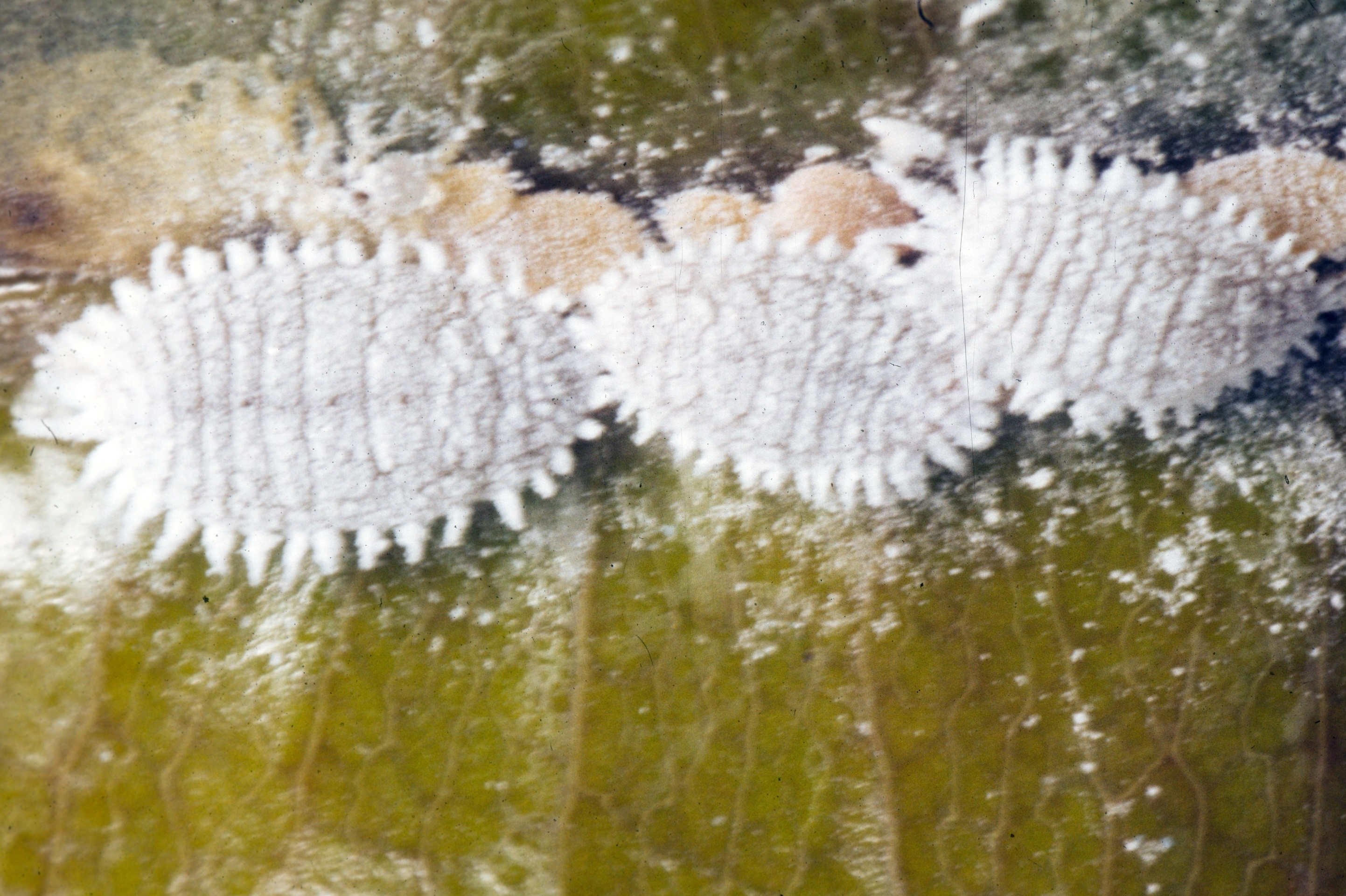 Planococcus citri, lab sample, Florida, USA